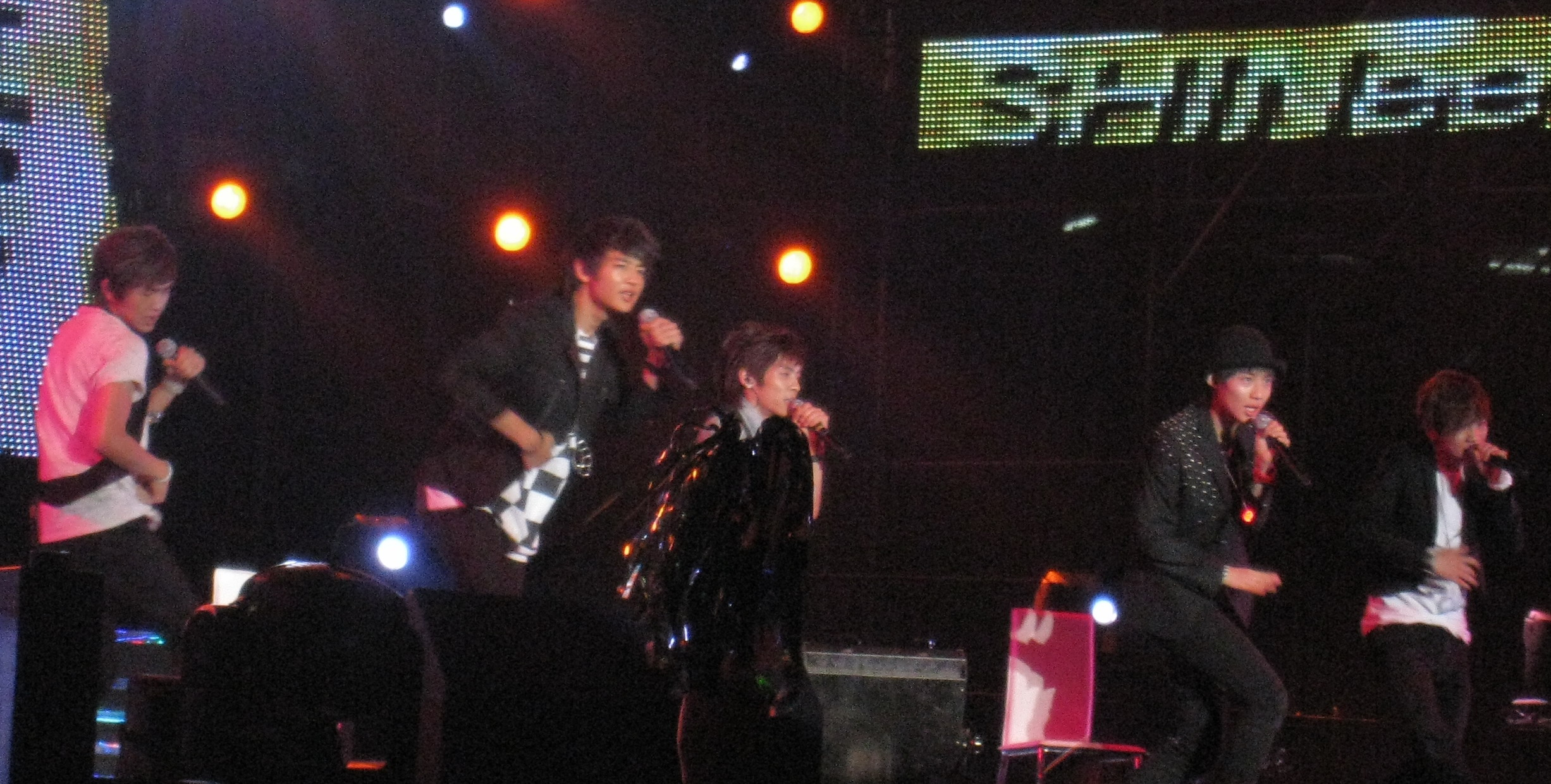 SHINee Live at SMTOWN Live in Bangkok